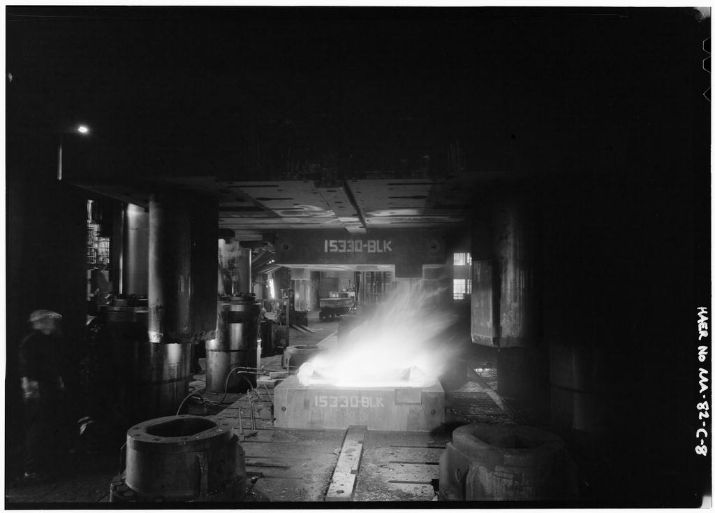 'Blocking' of die on east side of press - Wyman-Gordon Company, Grafton Plant, 50000 Short Ton Press